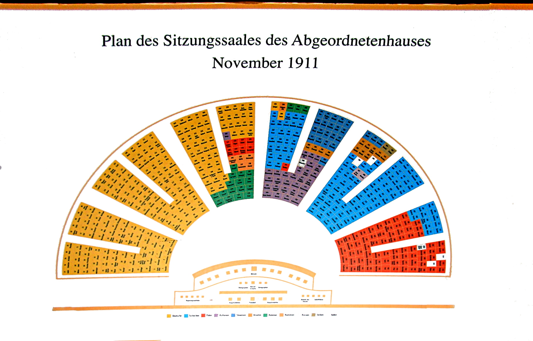 Plan of the chamber of the House of Deputies of the Austrian Imperial Council after the November 1911 Cisleithanian legislative elections. The seats are marked by languages and religion.